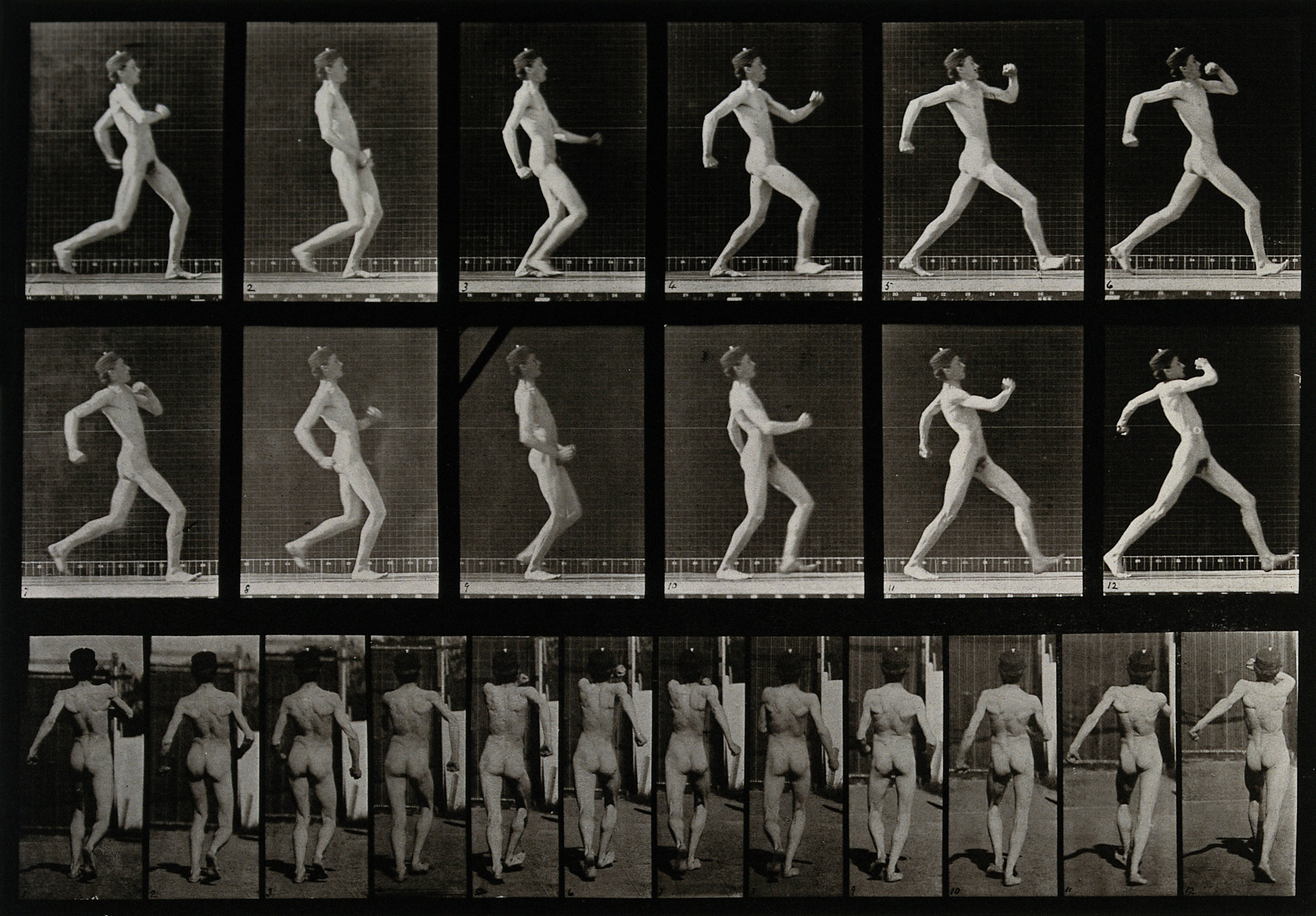 A man running. Photogravure after Eadweard Muybridge, 1887. Iconographic Collections Keywords: University of Pennsylvania.; Eadweard Muybridge